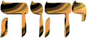 YAHUAH:Jehovah YHUH Modern Hebrew